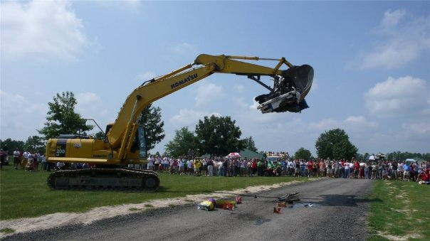 24 Hours of LeMons, Peoples Curse, Salazar RAcing